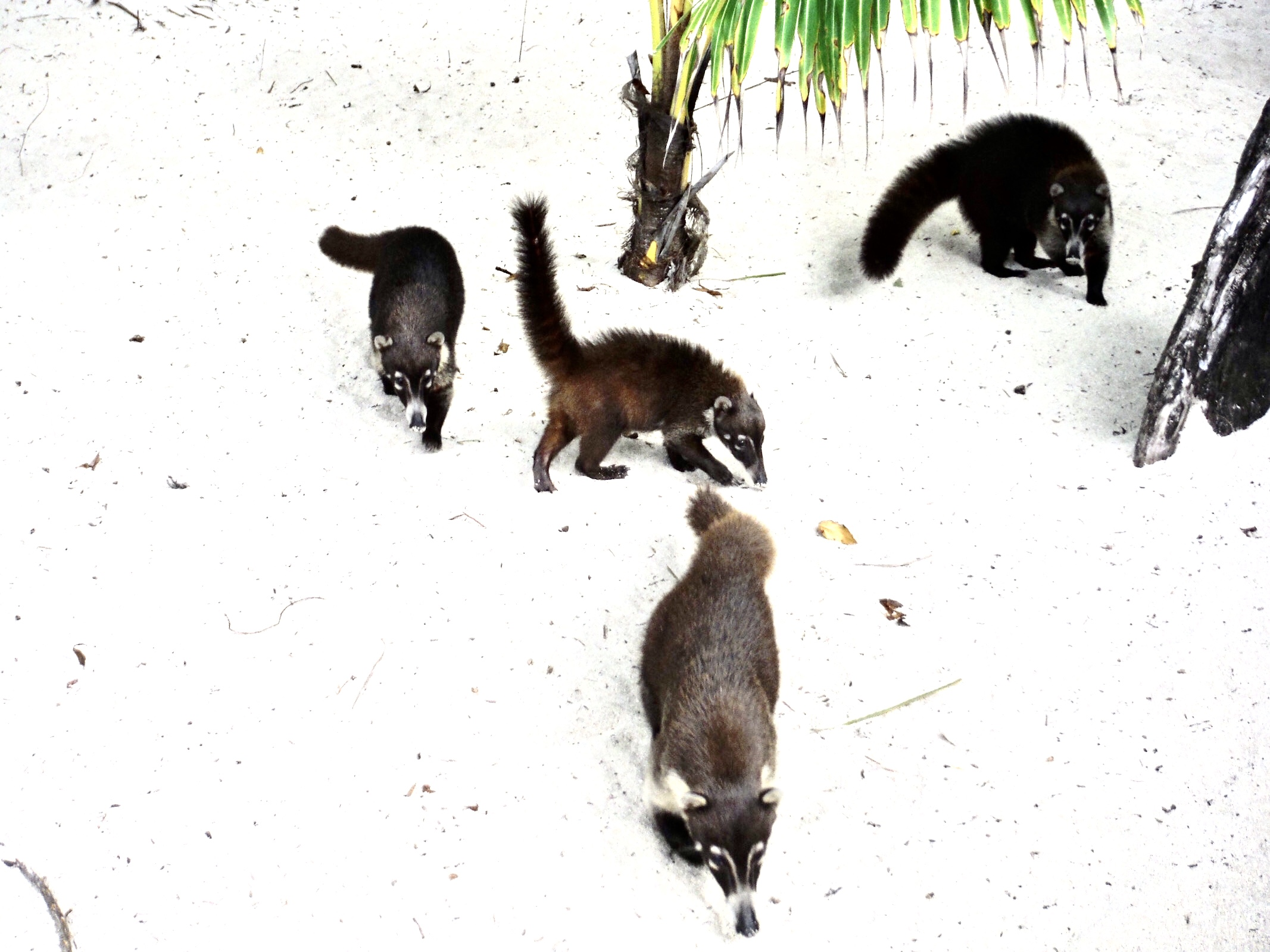 Cozumel Island Coati Family, taken Jan 2020 @Shari Linger